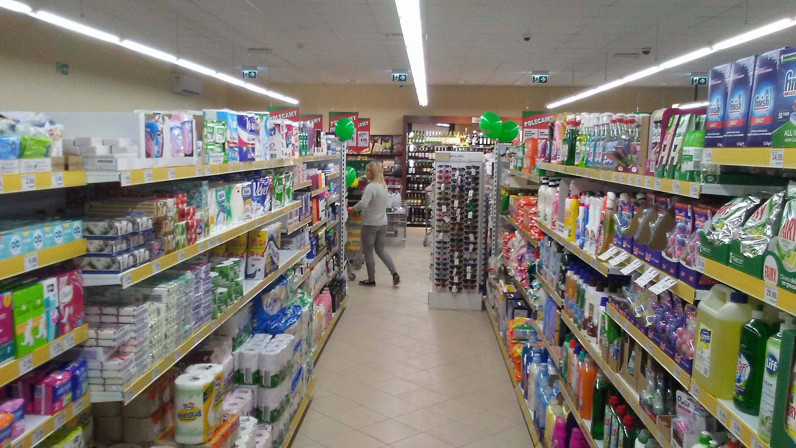 Inside Polish Dino discount, Tomaszów Mazowiecki, Popiełuszko Street